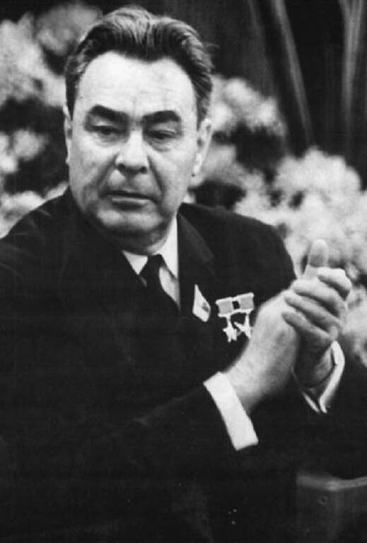 Leonid Brezhnev Portrait